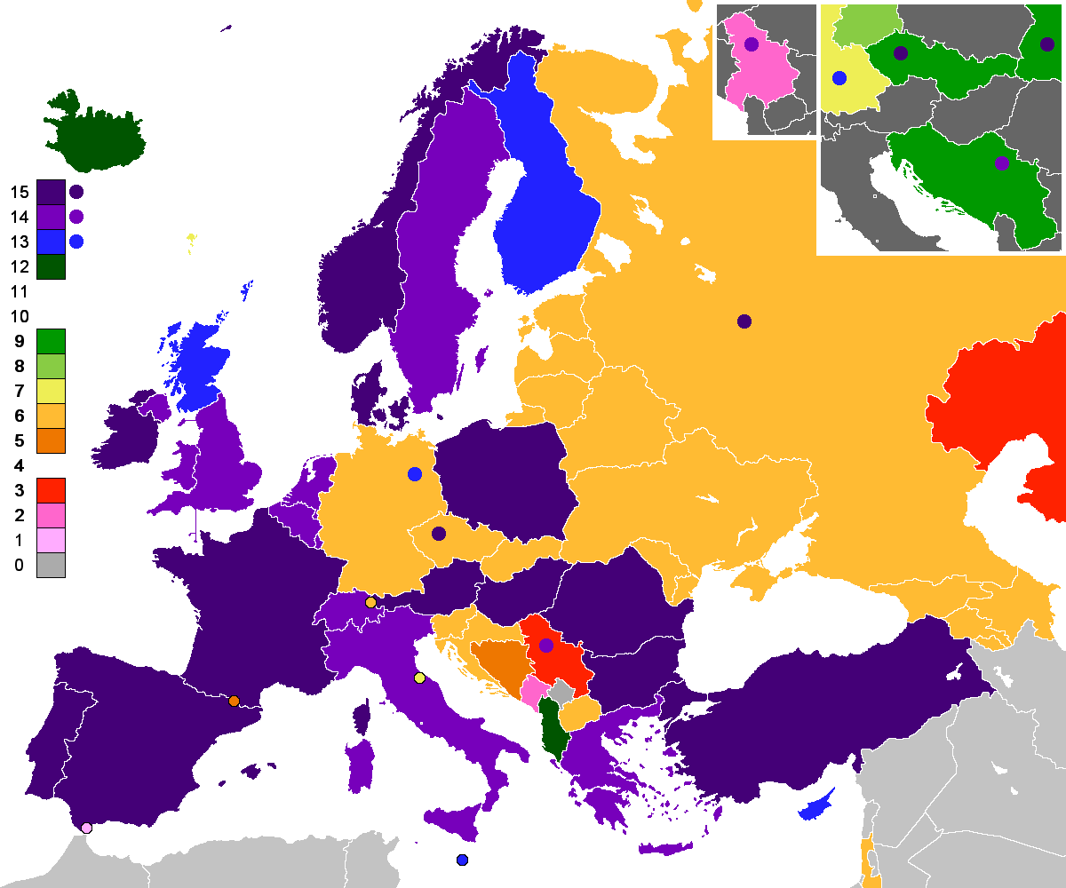 UEFA Championship – Number of appearances inclusive qualification